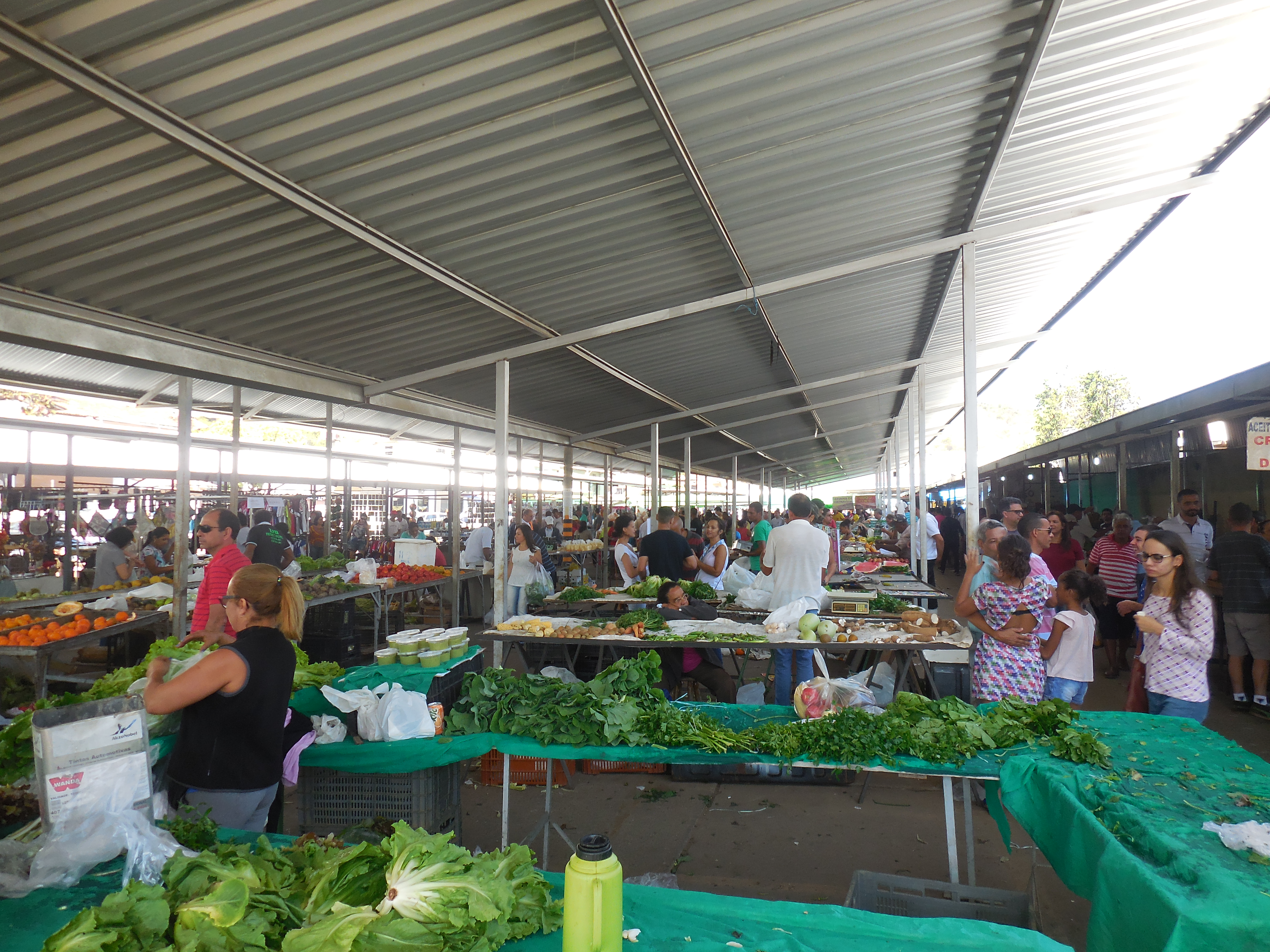 Timirim's fair, which is held in the João XXIII neighborhood, in Timóteo, Minas Gerais, Brazil.